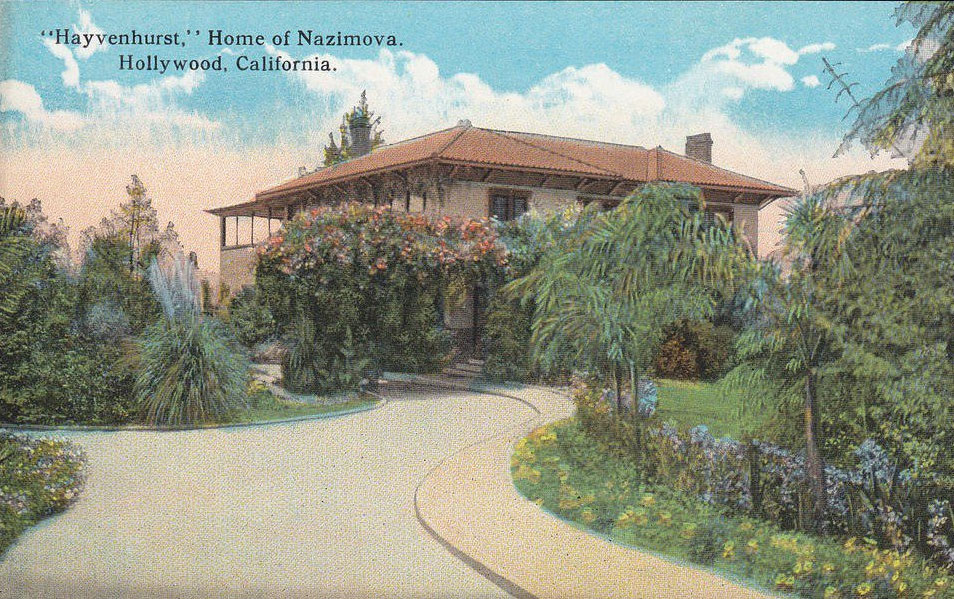 A postcard depicting Hayvenhurst, the home of Alla Nazimova that would years later be converted into the Garden of Alla Hotel.